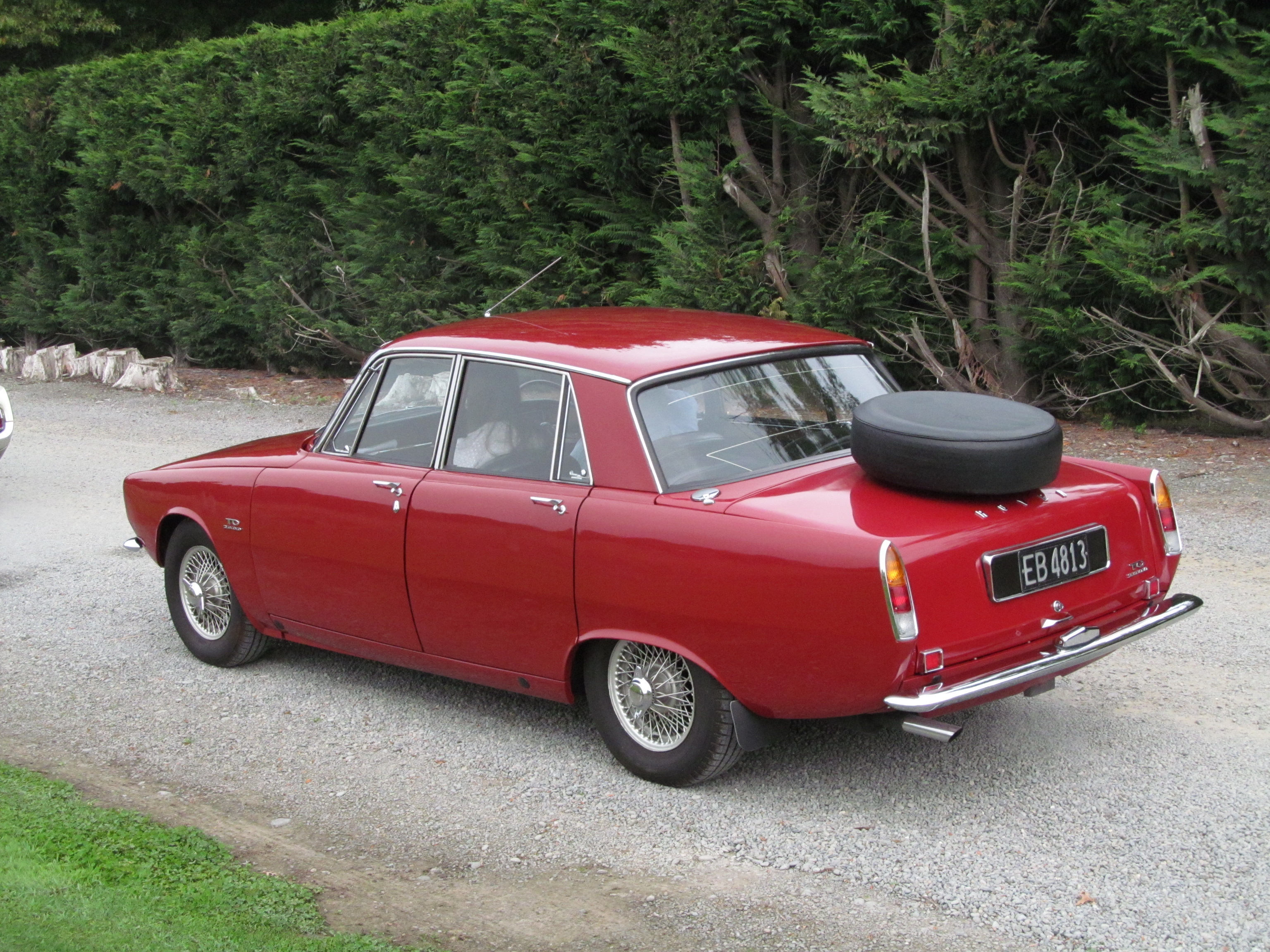 This is a very rare car now, as most of the P6s left are later 3500s. I personally think these early ones look the best, and the wire wheels help it no end as well. A very handsome car.